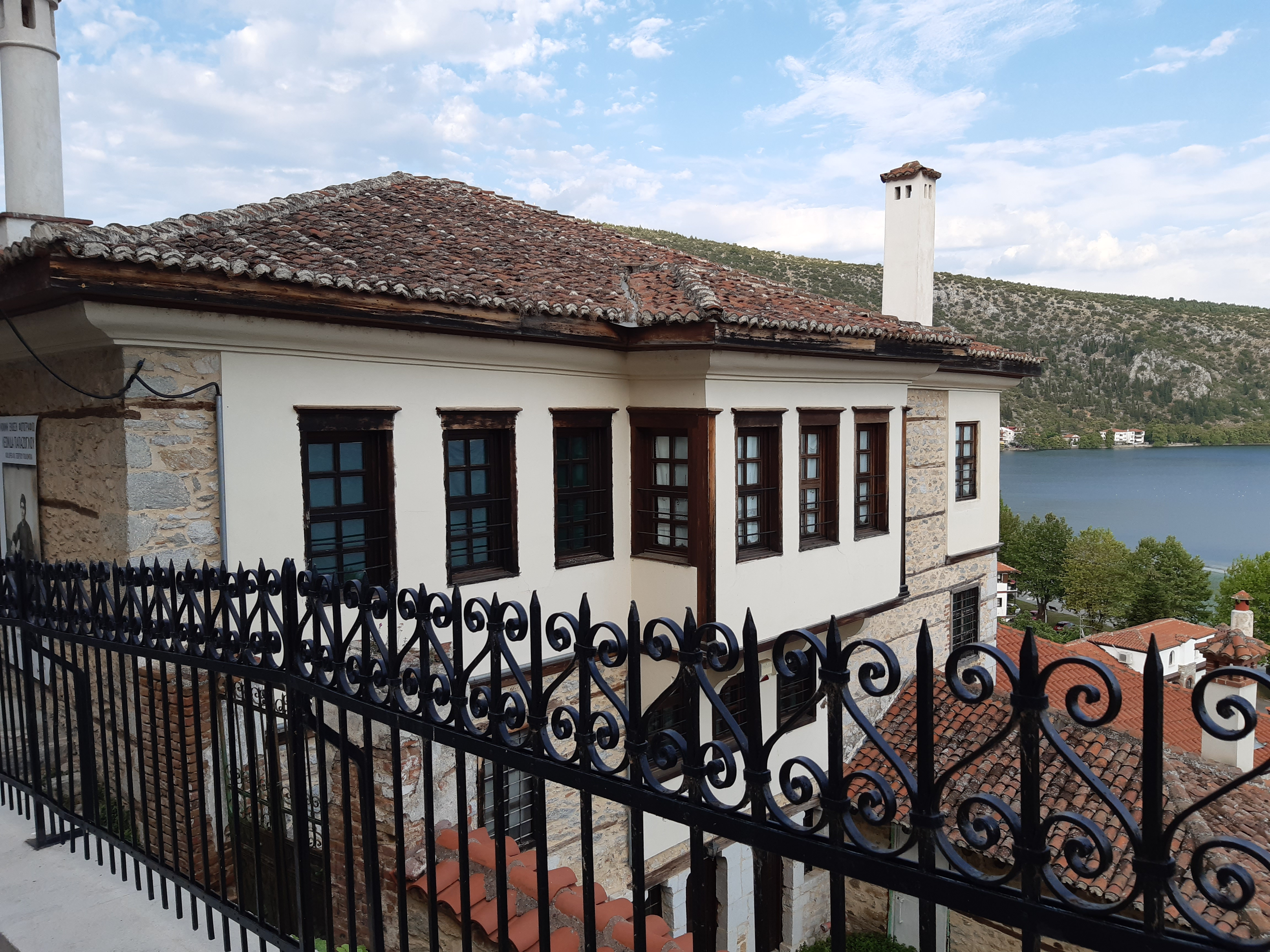 Vergoulas Mansion (1850)